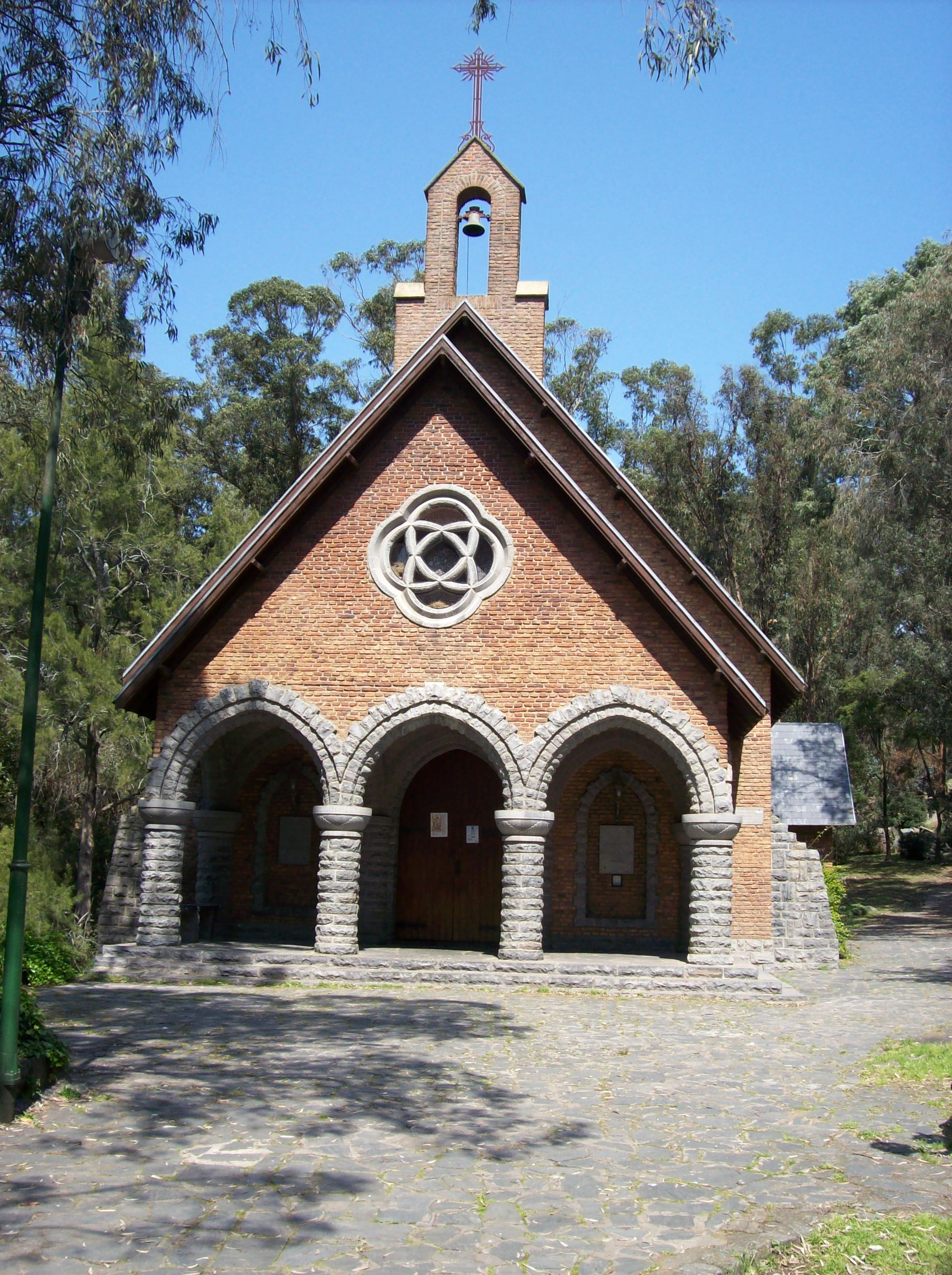 St. Gemma Chapel in Mount Calvary, Tandil, Buenos Aires Province, Argentina.